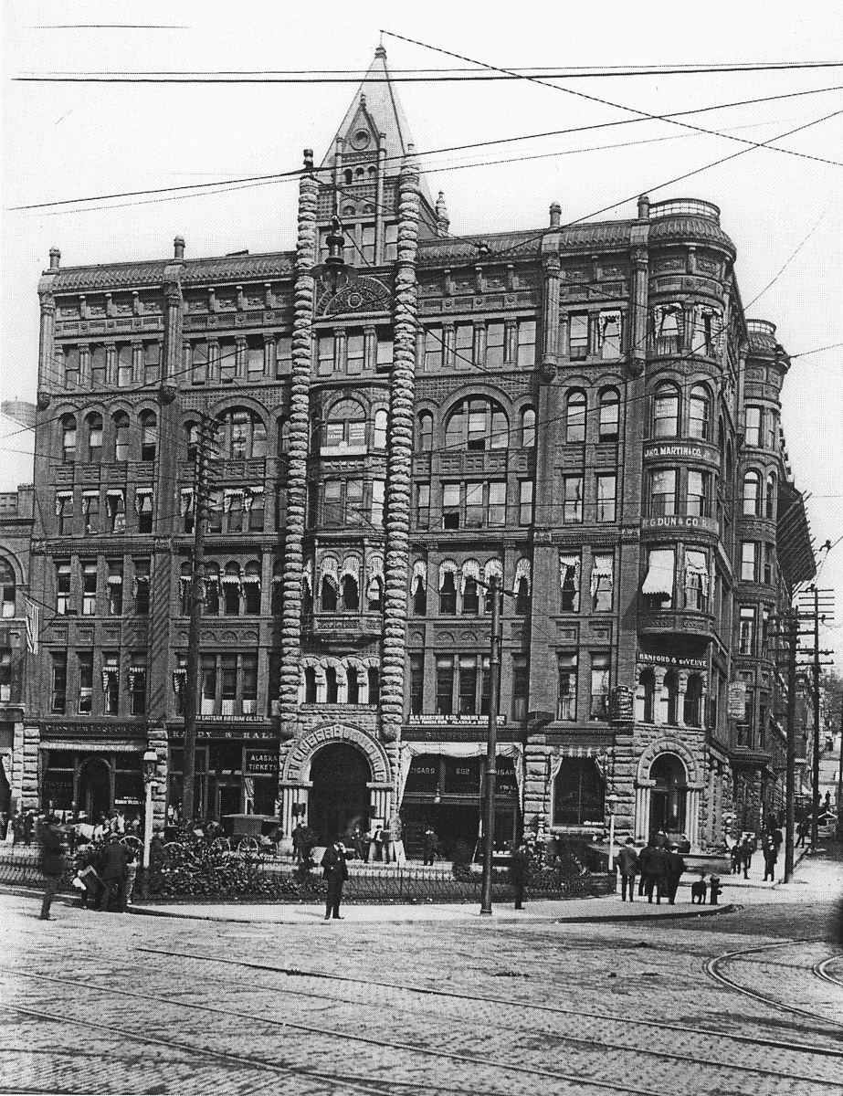 Item 111246, Fleets and Facilities Department Imagebank Collection (Record Series 0207-01), Seattle Municipal Archives